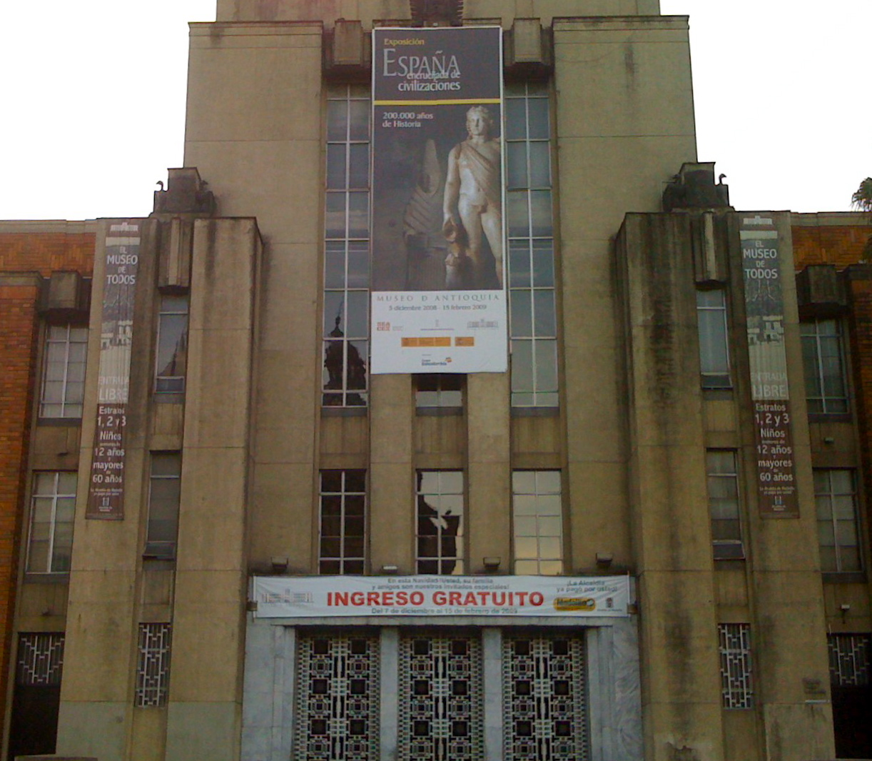 Museo de Antiioquia. Main Entrance, Medellín, Columbia.